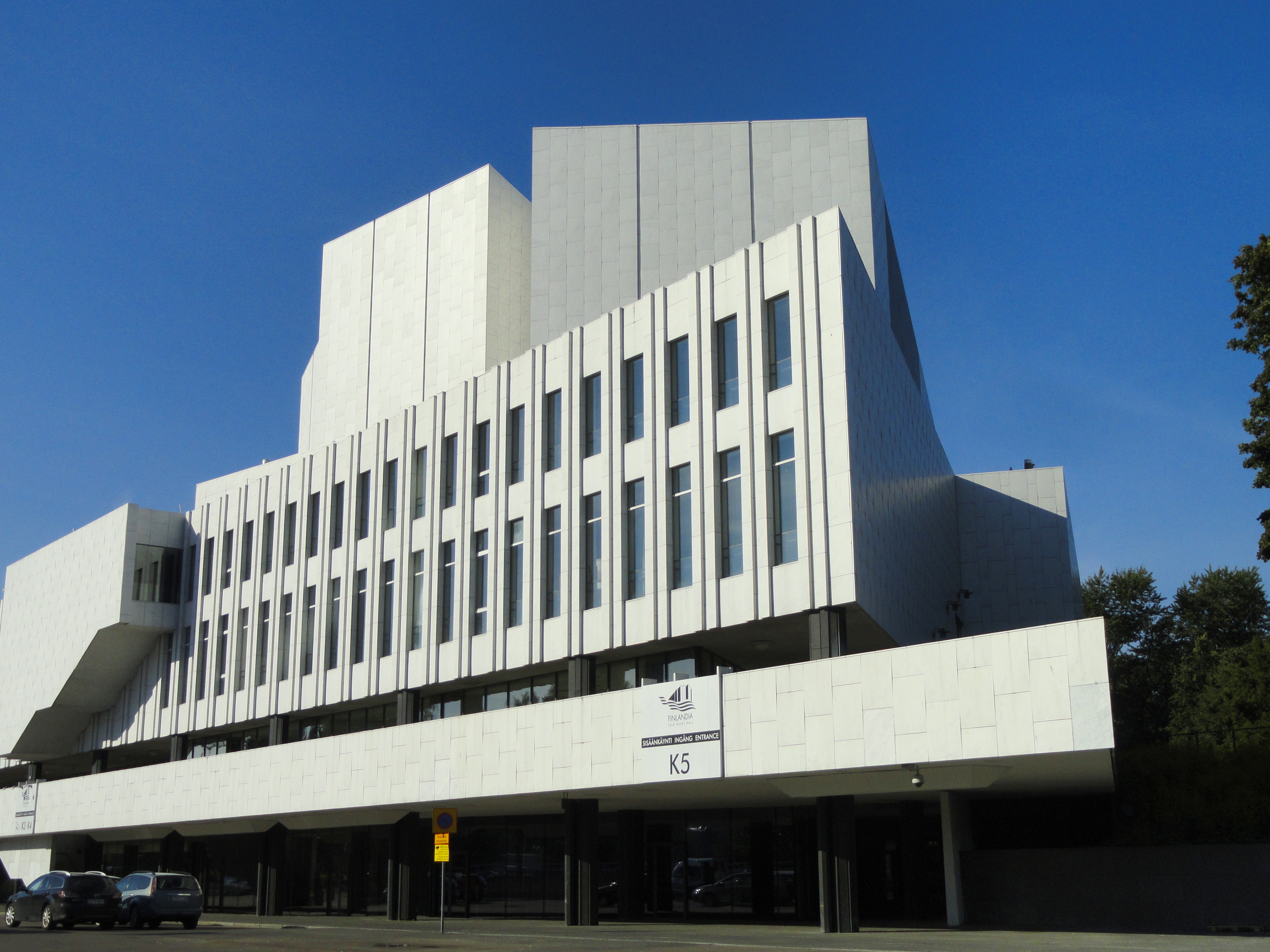 Finlandia Hall, Helsinki, Finland.